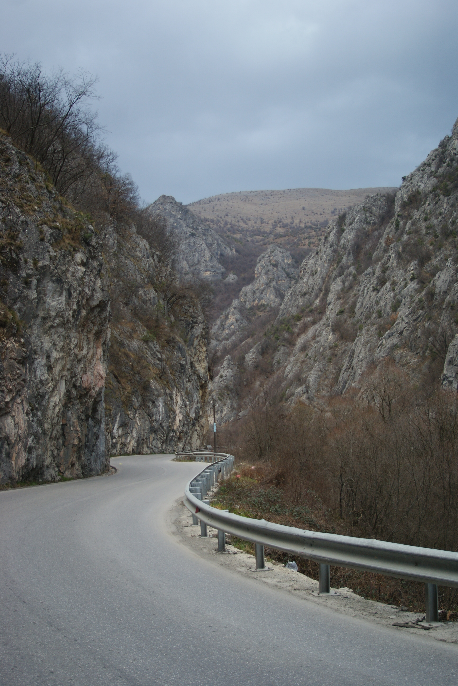 Gryka e Lumbardhit 1